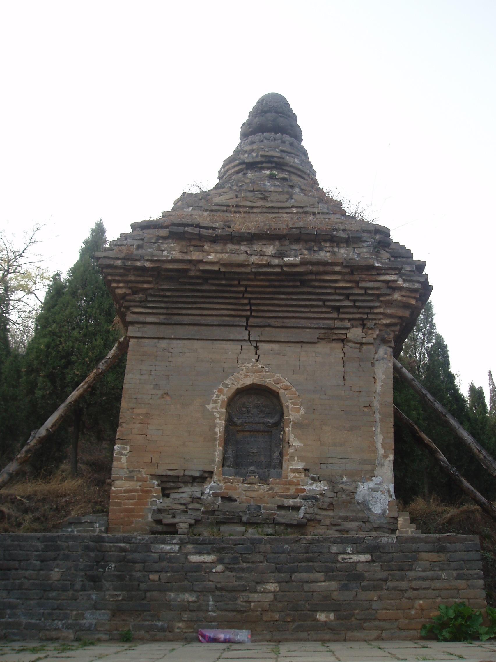 This is the oldest Pagoda in the forest, I believe from the Tang Dynasty